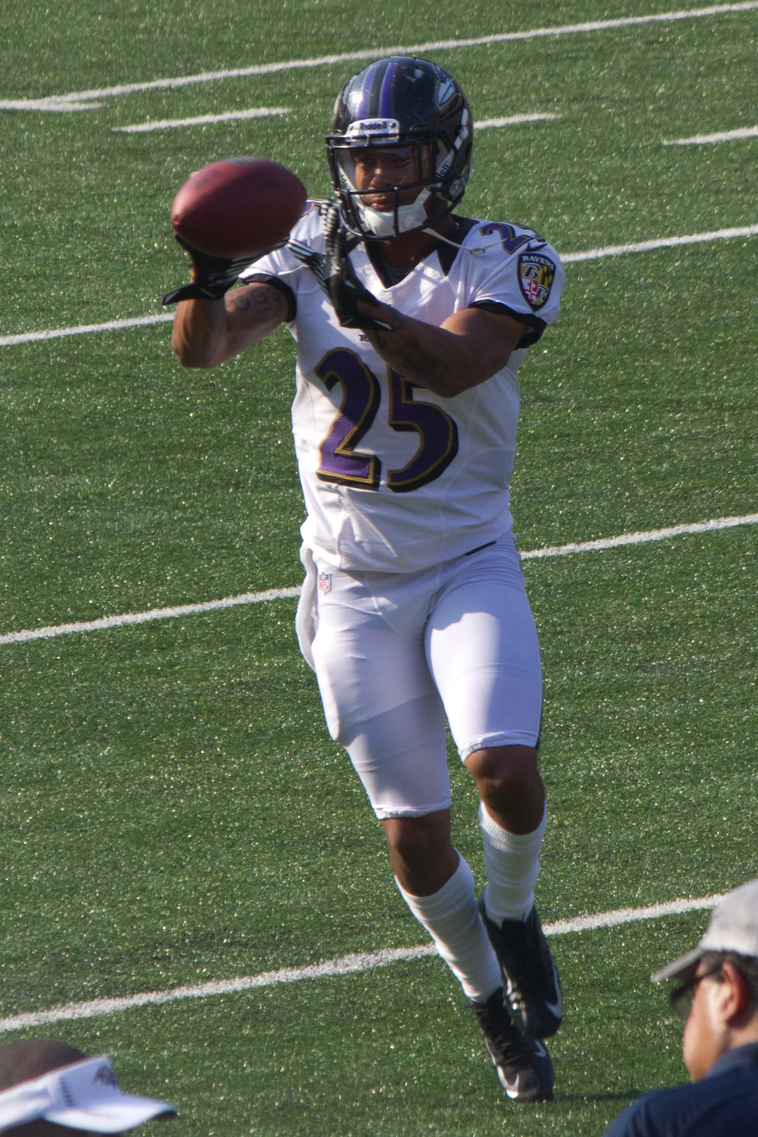 Asa Jackson at Ravens M&T Bank Stadium practice in August 2012